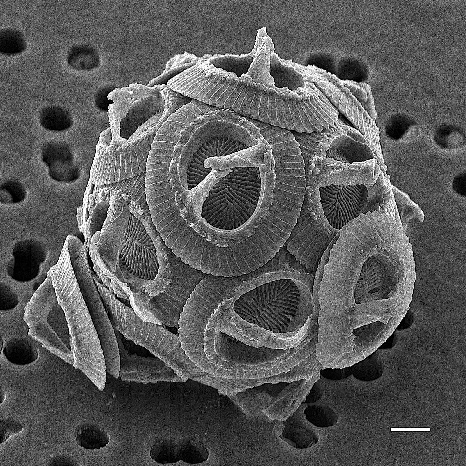 Gephyrocapsa oceanica Kamptner / from Mie Pref., Japan / SEM:JEOL JSM-6330F / scale bar = 1.0μm